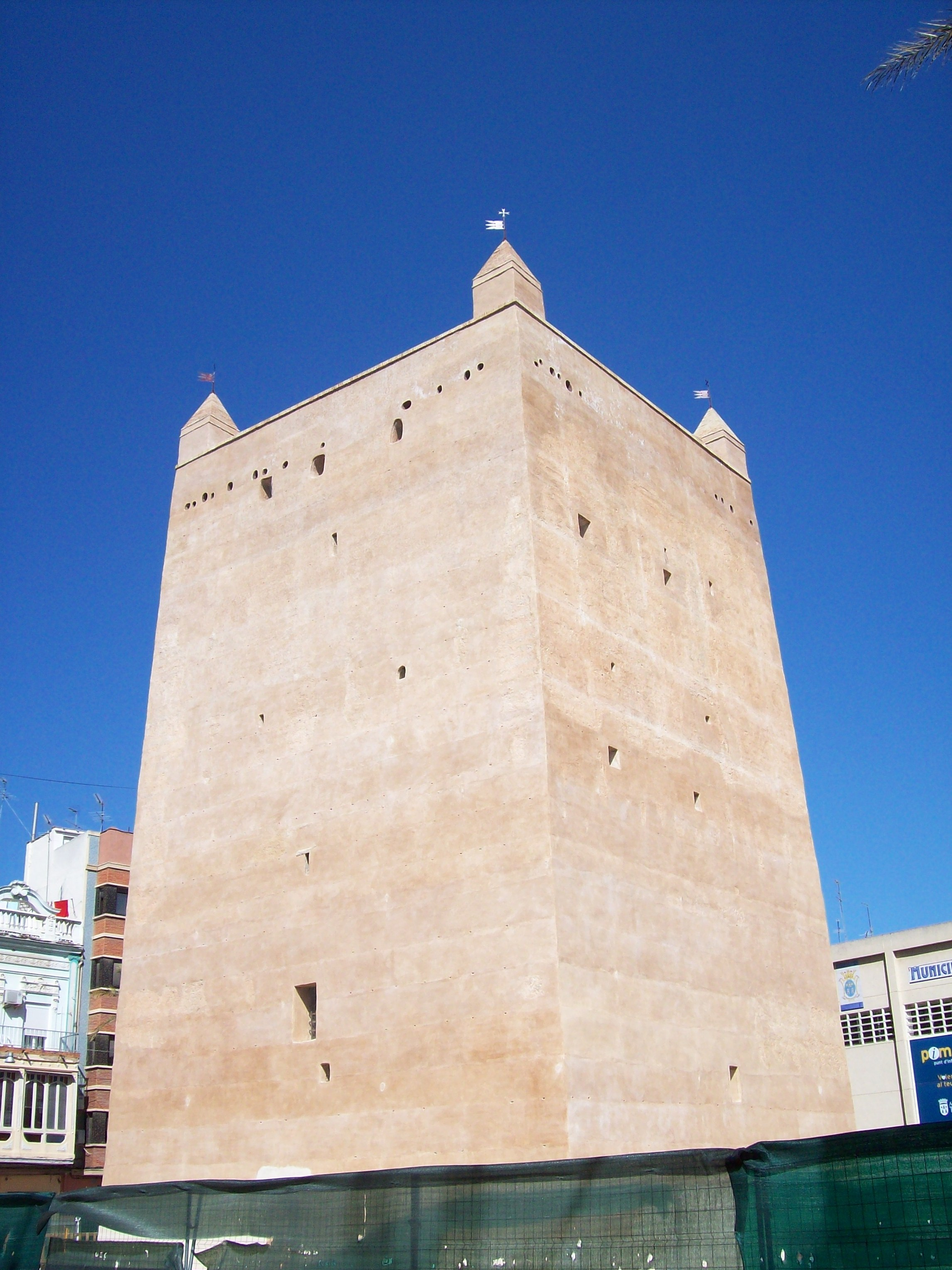 Tower of Torrent, Valencia, Spain